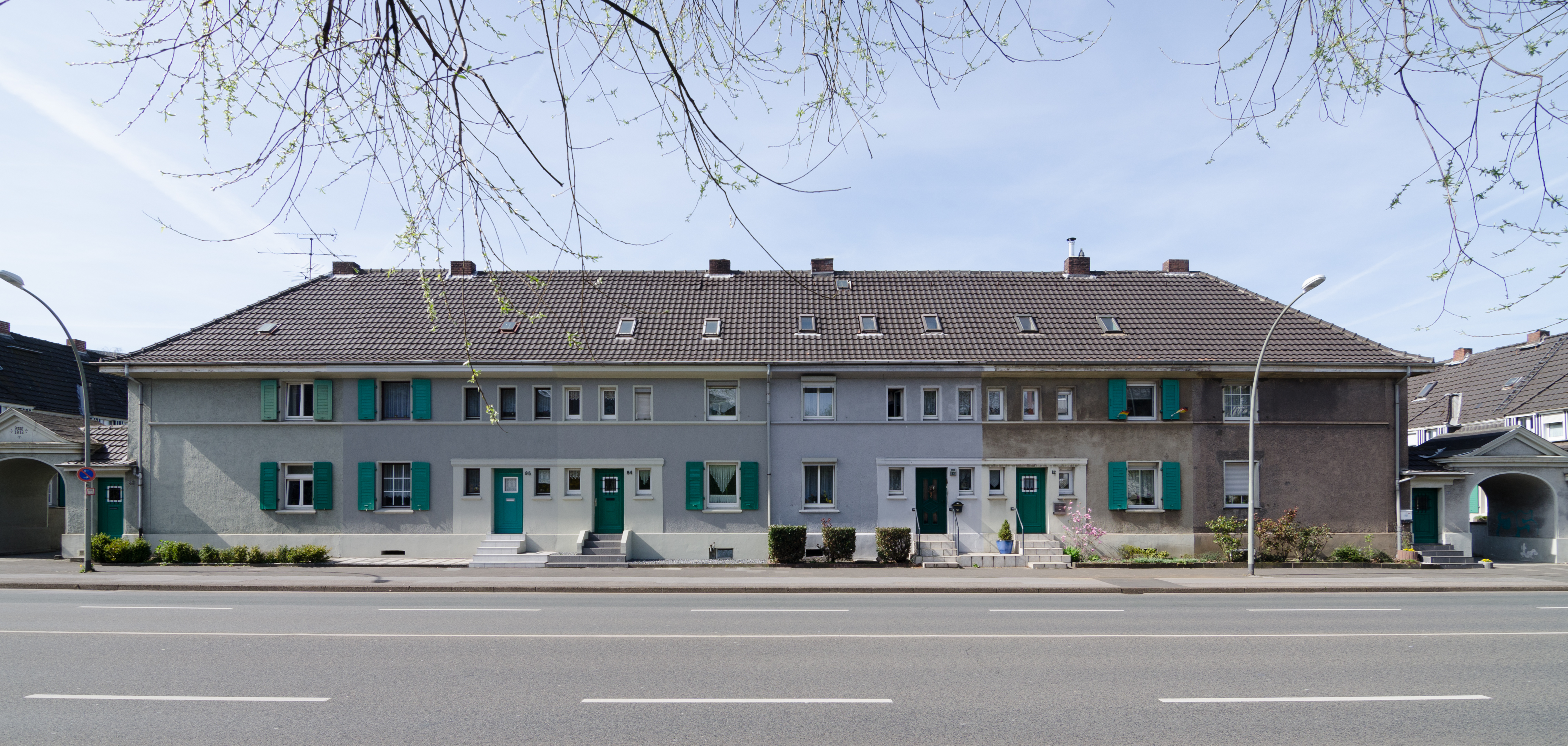 Duisburg (North Rhine-Westphalia, Germany) – borough Homberg/Ruhrort/Baerl, district Alt-Homberg – Johannenhof Colony